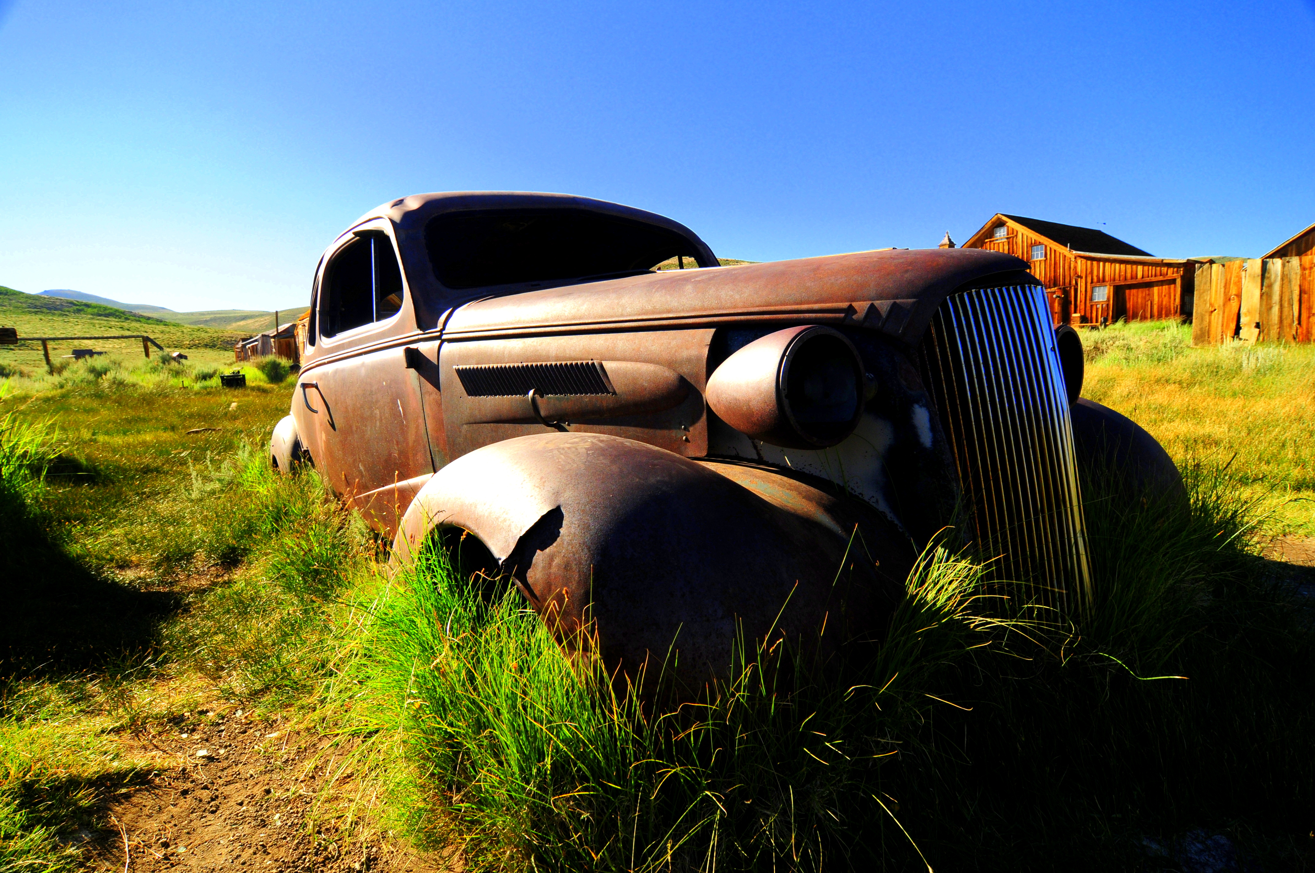 Rusty and abandoned 1937 Chevrolet coupe, Bodie, California